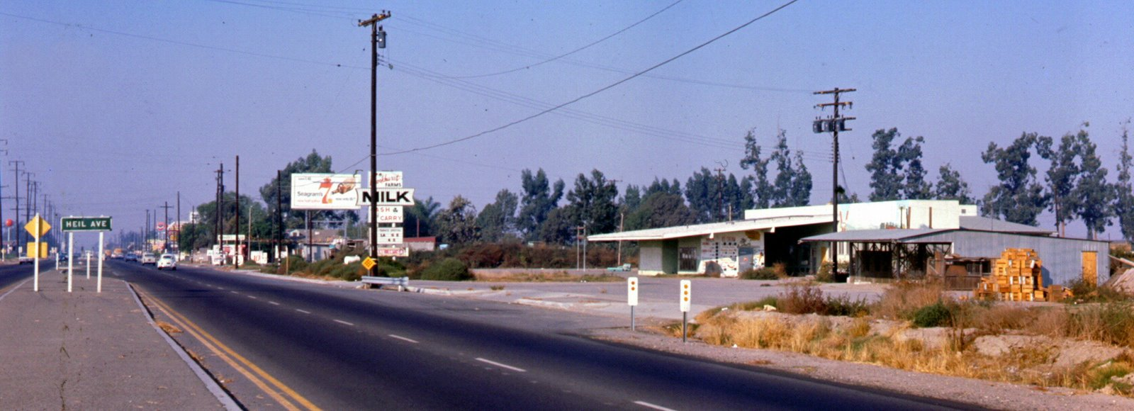 The Brookhurst Dairy and other businesses can be seen. There are no known copyright restrictions on this image. All future uses of this photo should include the courtesy line, "Photo courtesy Orange County Archives."